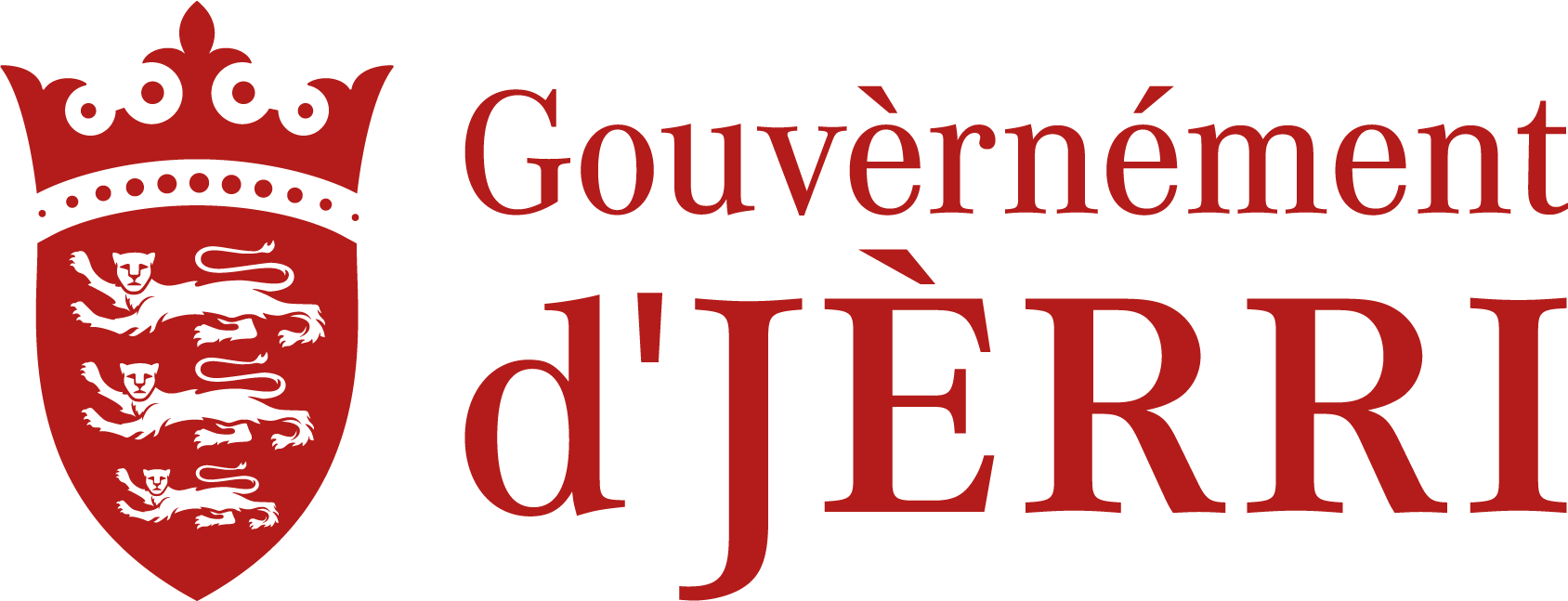 Government of Jersey Jèrriais identity graphic